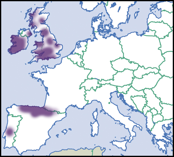 Pyramidula umbilicata (Montagu, 1803). Distribution in Europe, scientific state of knowledge of 2012. Source description in English. Light colour indicated rare occurrences or regions where the species could eventually be expected to occur. Dark colour indicated relatively reliable occurrences, as well as regions where the species was expected to occur, and where the species was not known to be extremely rare. Dark colour indications were not necessarily based on published records. Species summary in AnimalBase